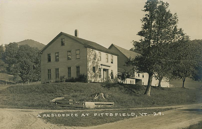 A residence at Pittsfield, Vermont